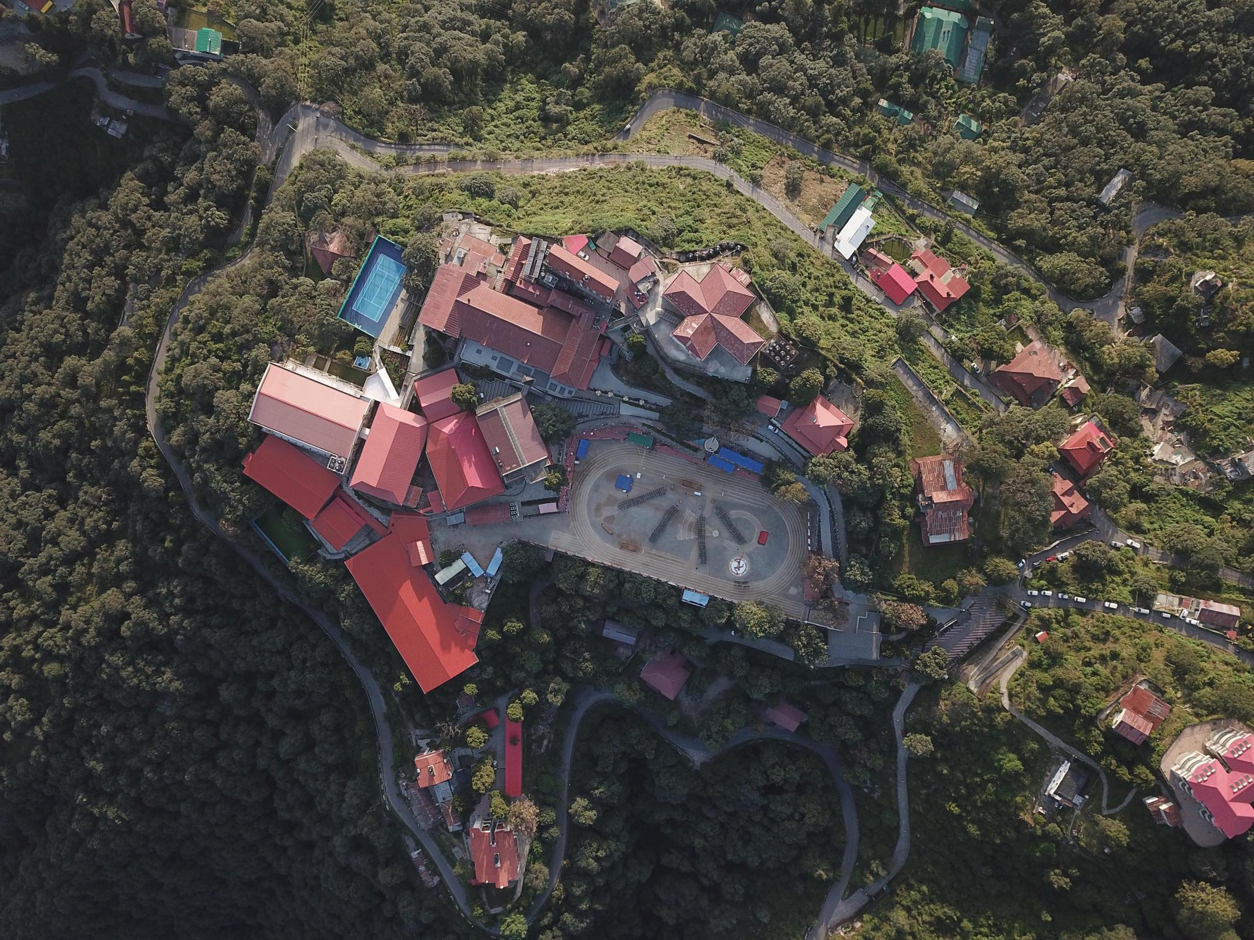 Wynberg-Allen School Drone View